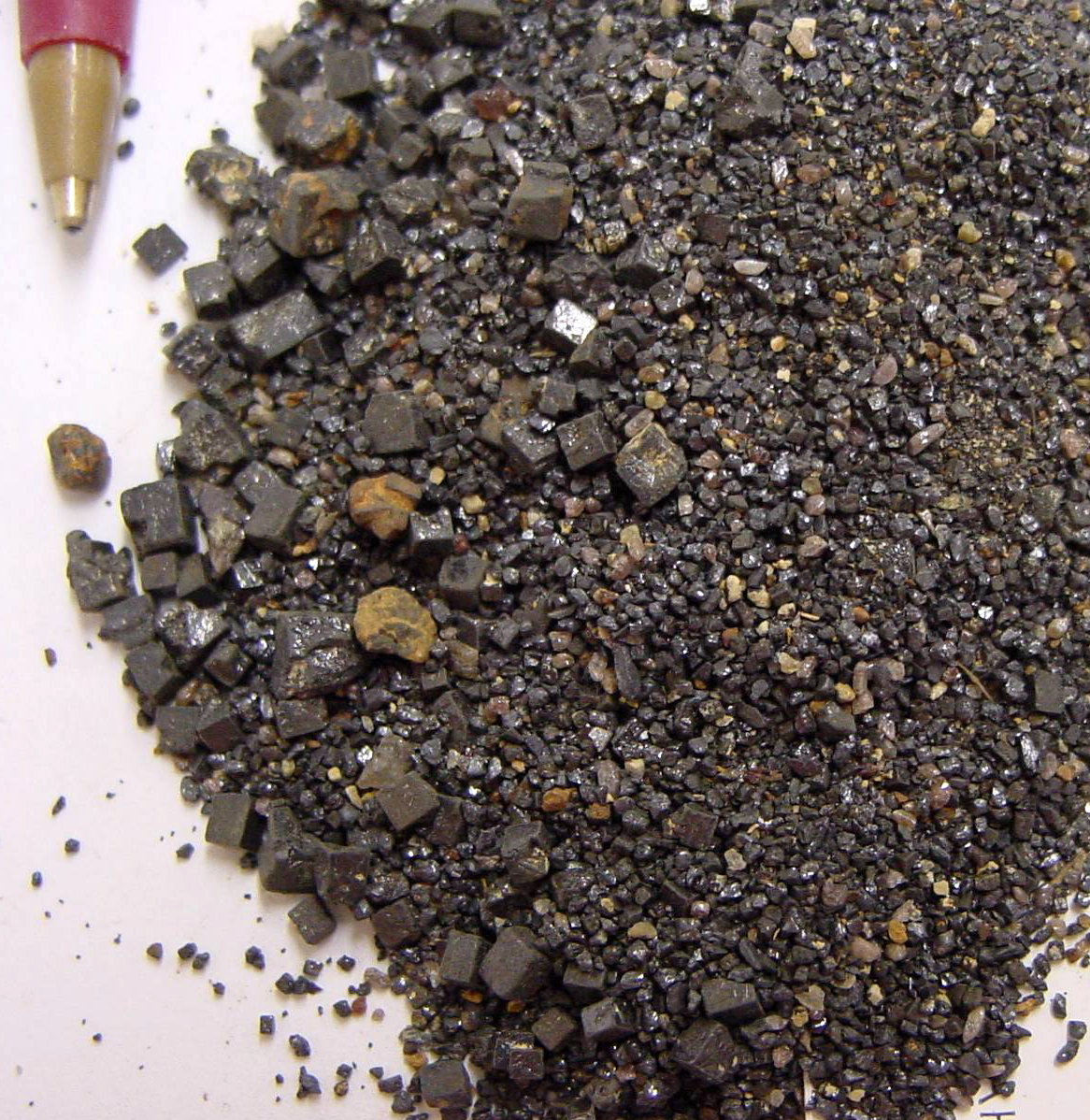 Thorianite (with Pen for scale, Collected 1893 by A. E. Foote) - Locality: Galle, Ceylon - Mineral collection of Brigham Young University Department of Geology, Provo, Utah. BYU index 4-8034a